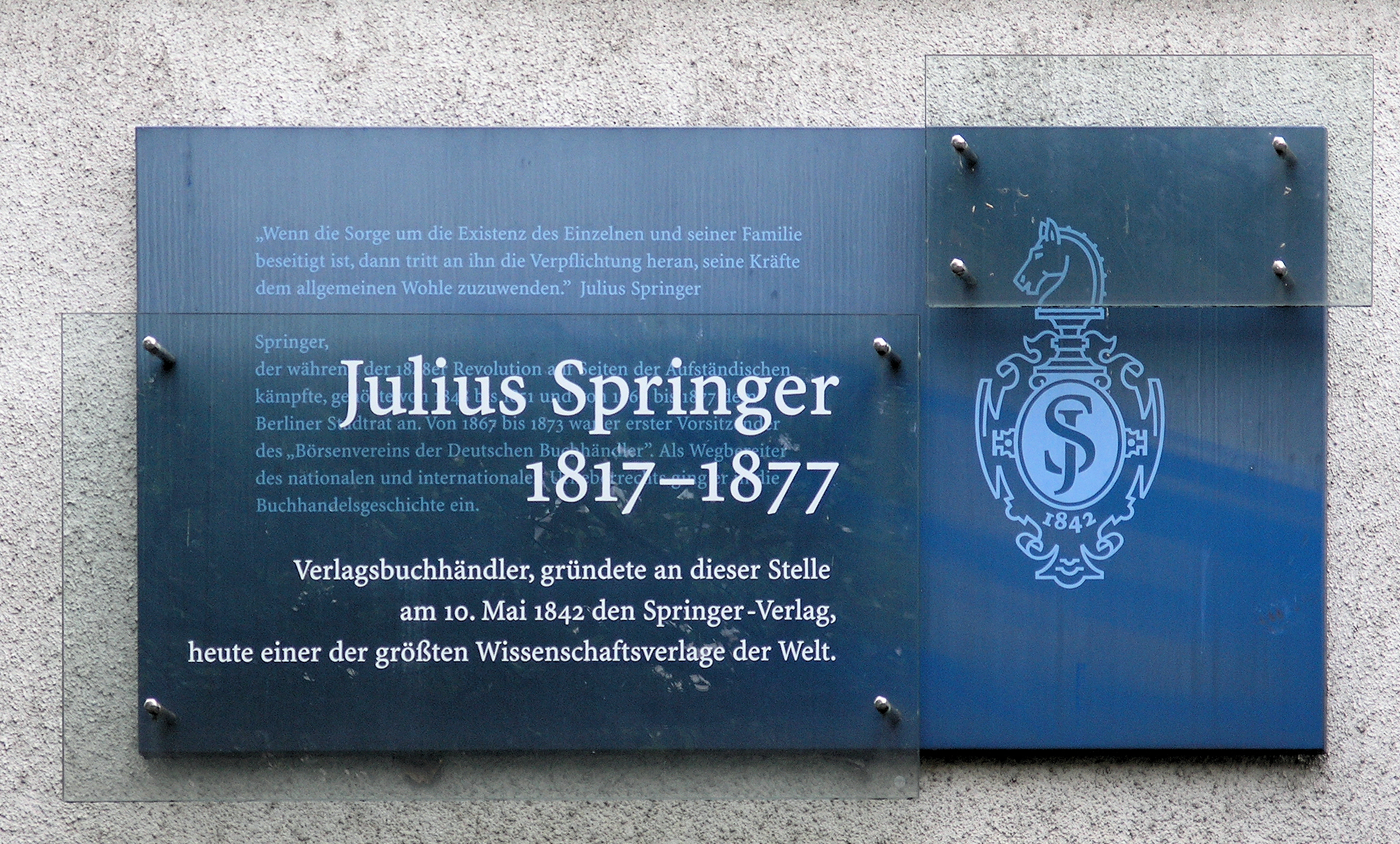 Memorial plaque, Julius Springer, Breite Straße 11, Berlin-Mitte, Germany Koordinate:52°30′52.9″N 13°24′18.6″E / 52.514694°N 13.405167°E